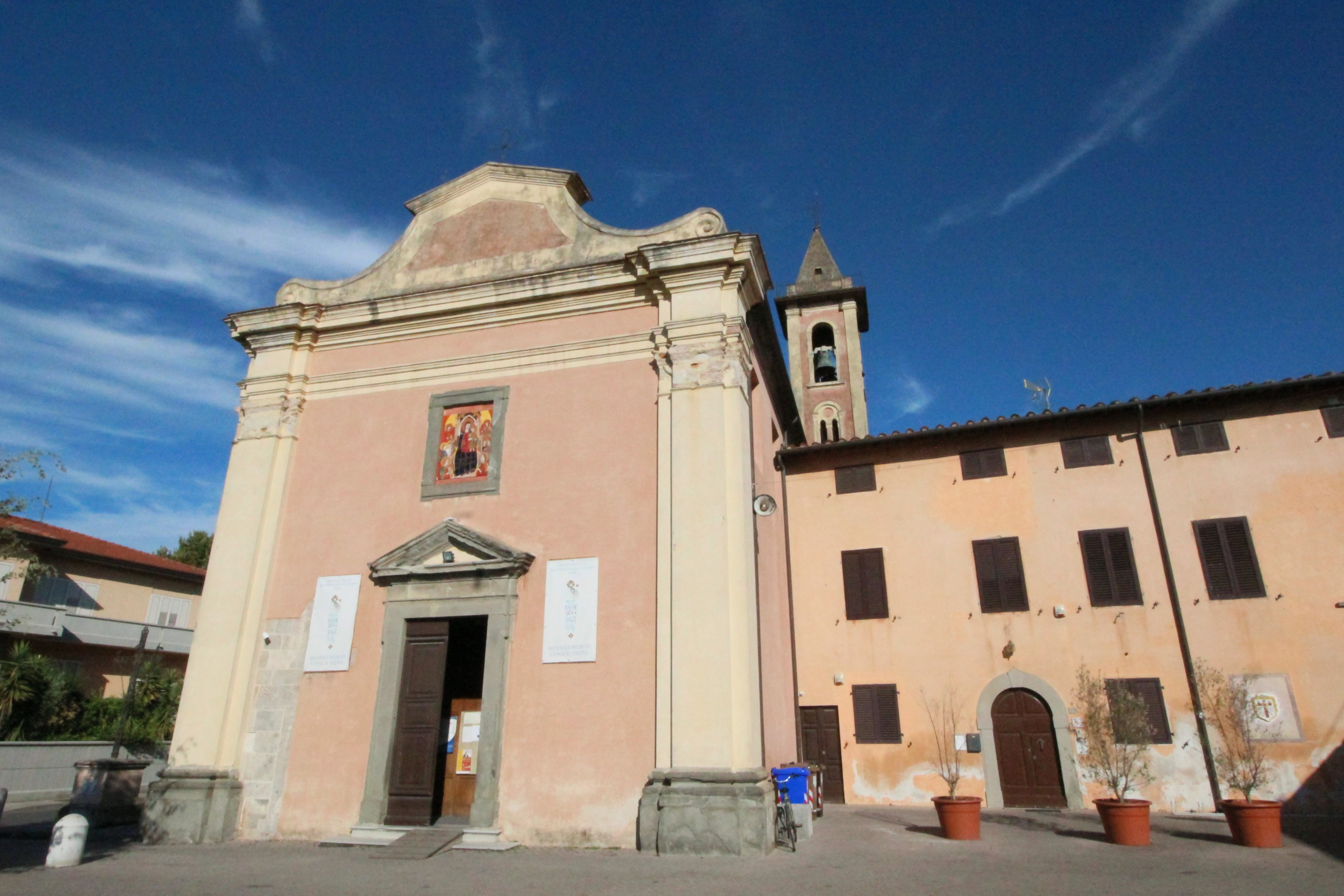 San Frediano a Settimo, Church in San Frediano a Settimo, hamlet of Cascina, Province of Pisa, Tuscany, Italy